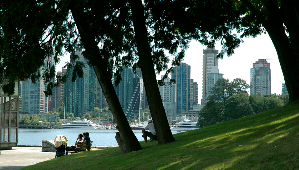 Vancouver's skyline as seen from Stanley Park as seen from the south side of Brockton Point. The metal frame on the left foreground is the housing for the Nine O'Clock Gun, which dates back to the city's maritime past when it was used to synchronize chronometers for ships in harbour, and for the trains and crews of the Canadian Pacific Railway. Max Batt 2006